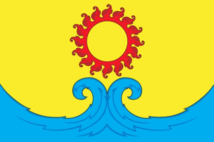 Flag of Golubitskoe, Krasnodar Territory, Russia